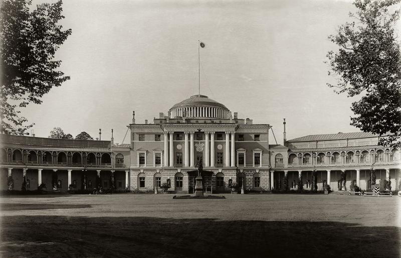 Pavlovsk (Russia), Pavlovsk Park.